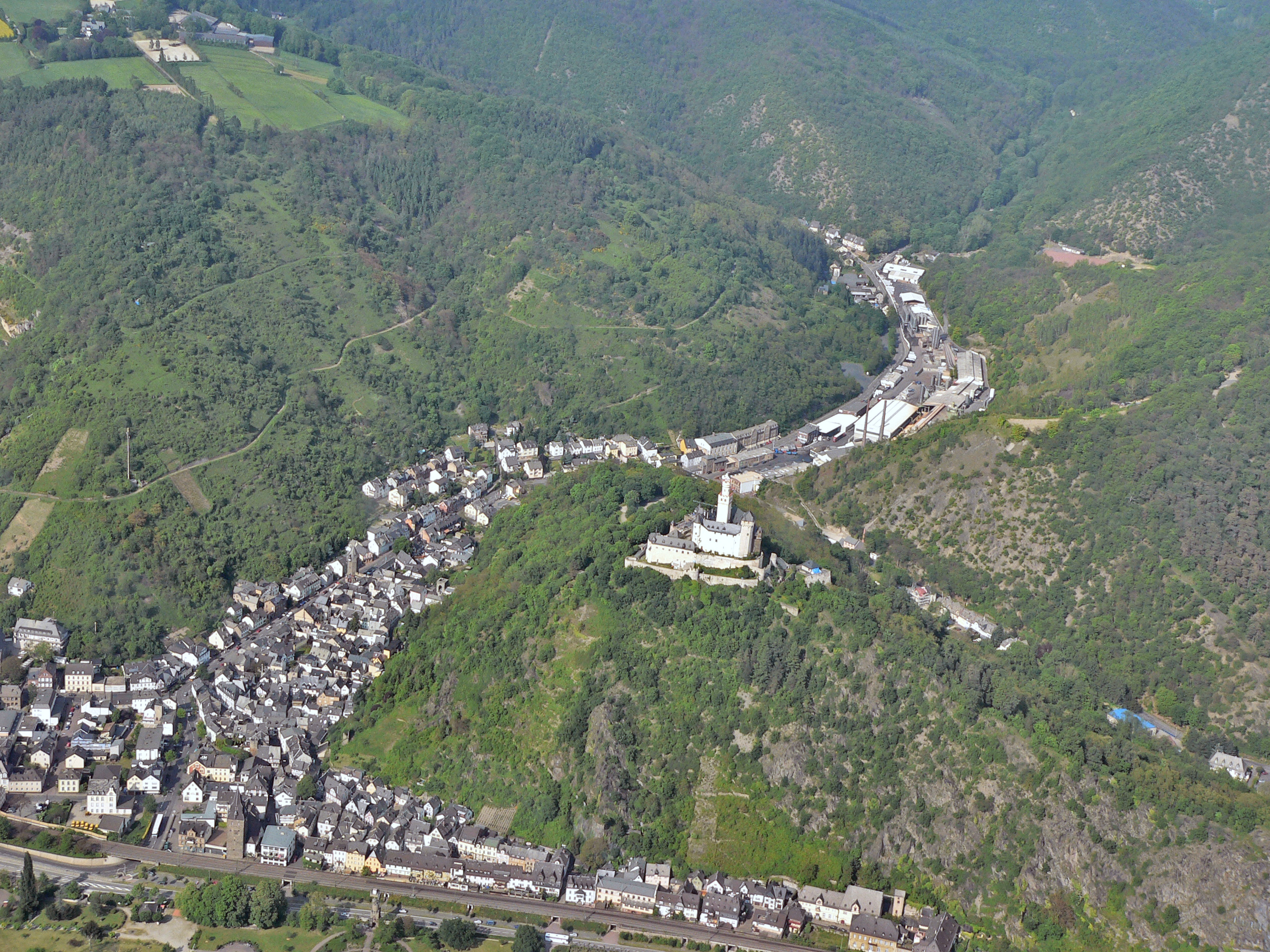 Marksburg, aerial view